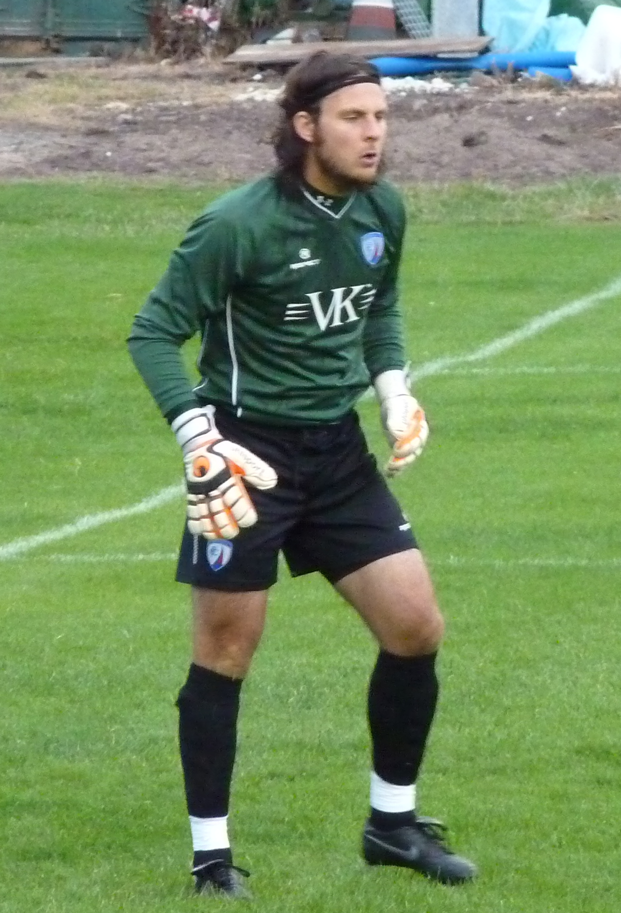 Matlock vs Chesterfield 19-07-11 023